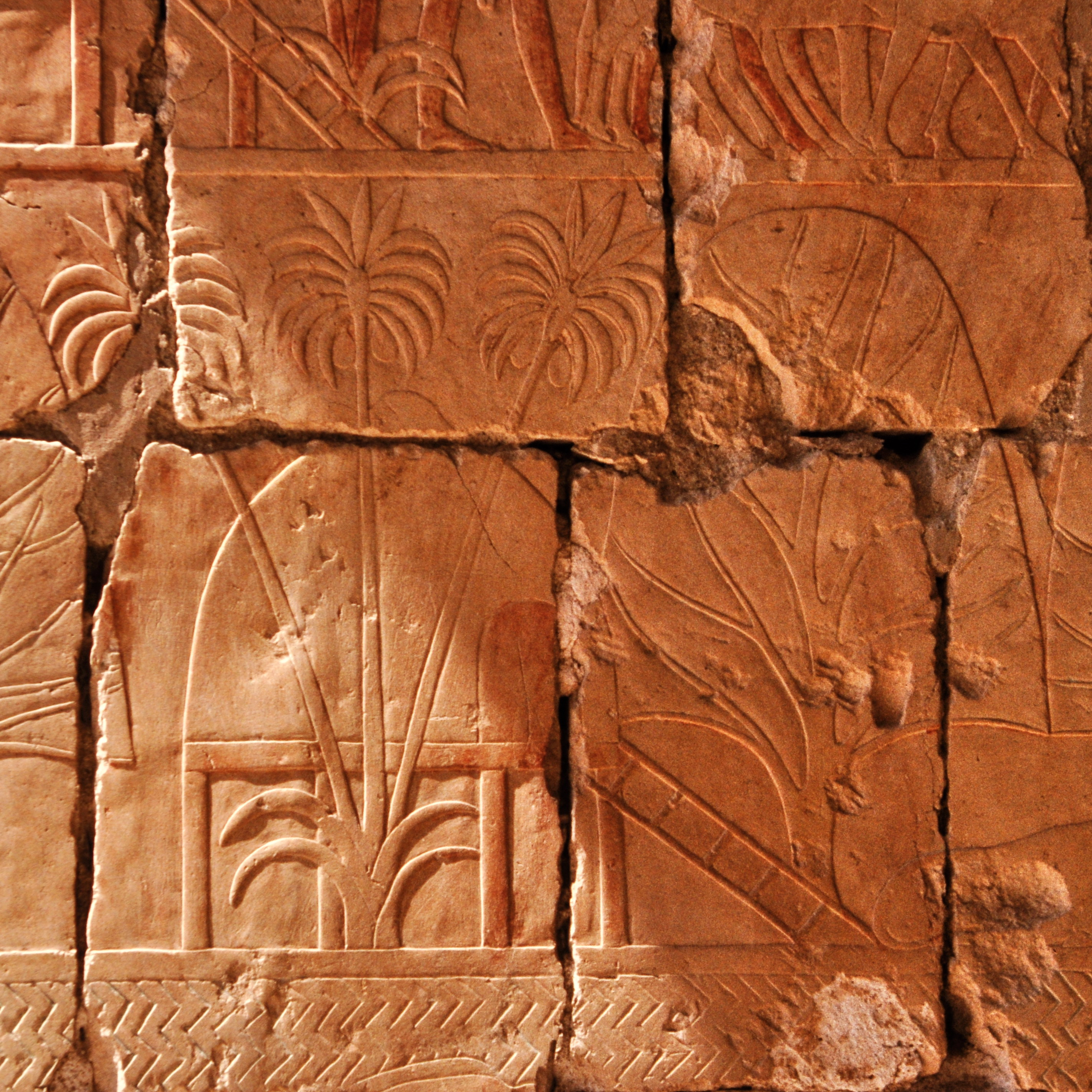 Egyptian expedition to Punt during the reign of Hatshepsut